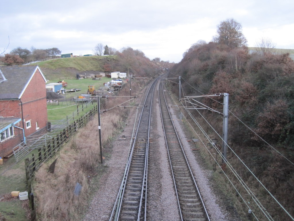 Hare Park & Crofton railway station (site), YorkshireOpened in 1885 jointly by the Great Northern Railway and the Manchester, Sheffield & Lincolnshire Railway on the line from Doncaster to Wakefield, this station closed in 1952. View south east towards Nostell and Doncaster. The main station building used to be on the left, now replaced by a modern house.